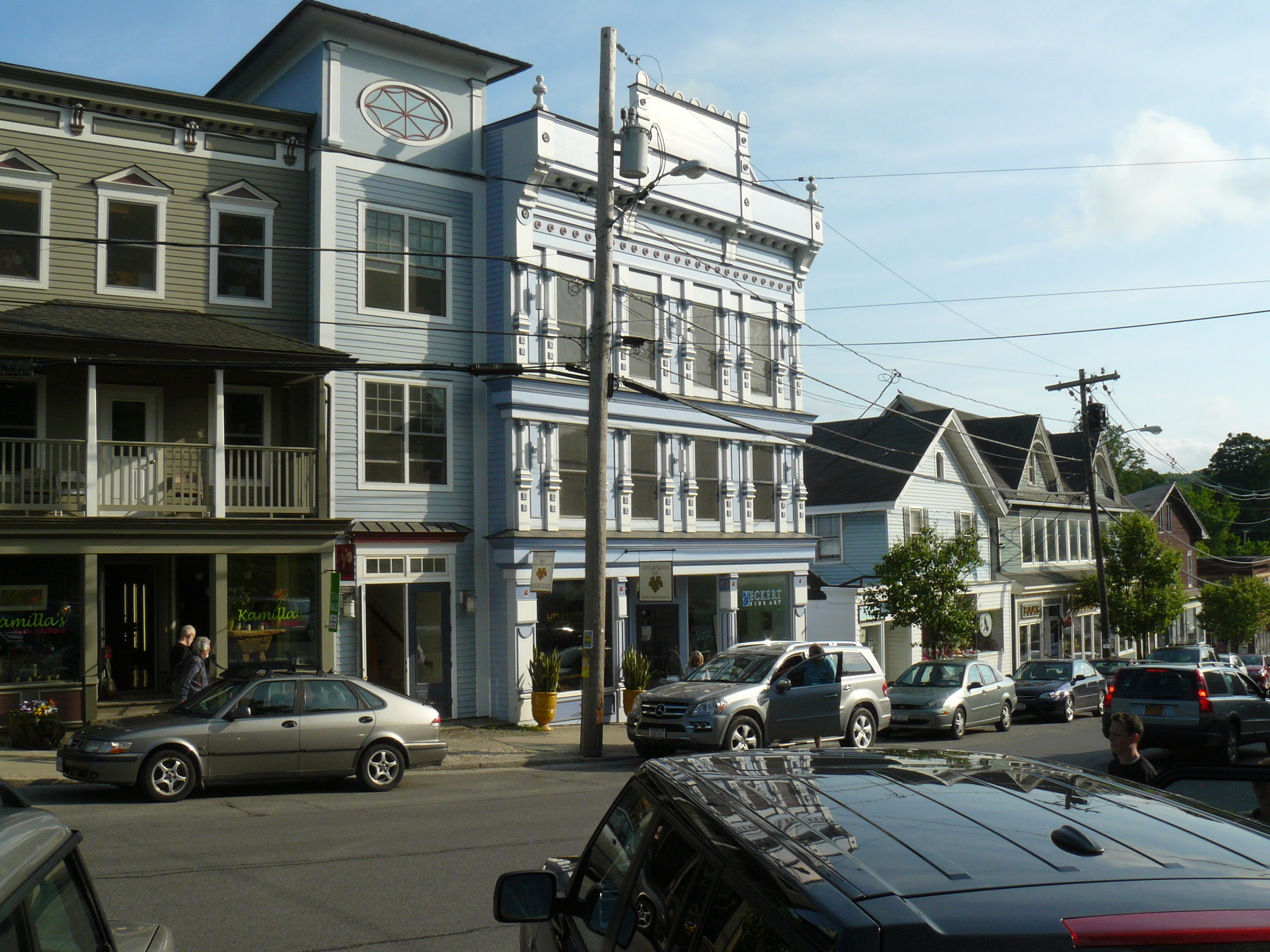 The business district of Millerton, Little Gates wine shop and Eckert Fine Art gallery.